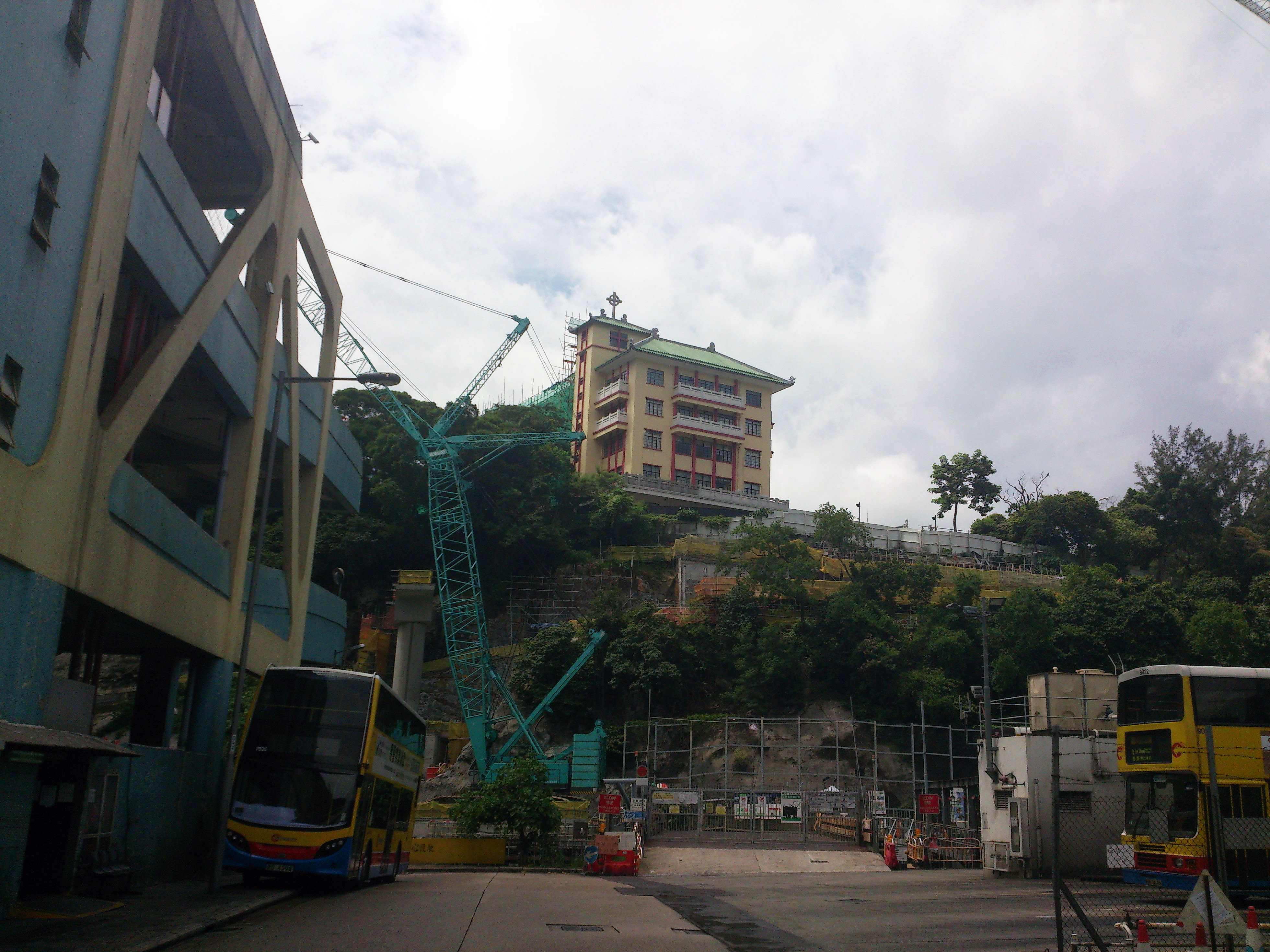 Holy Spirit Seminary viewed from Heung Yip Road